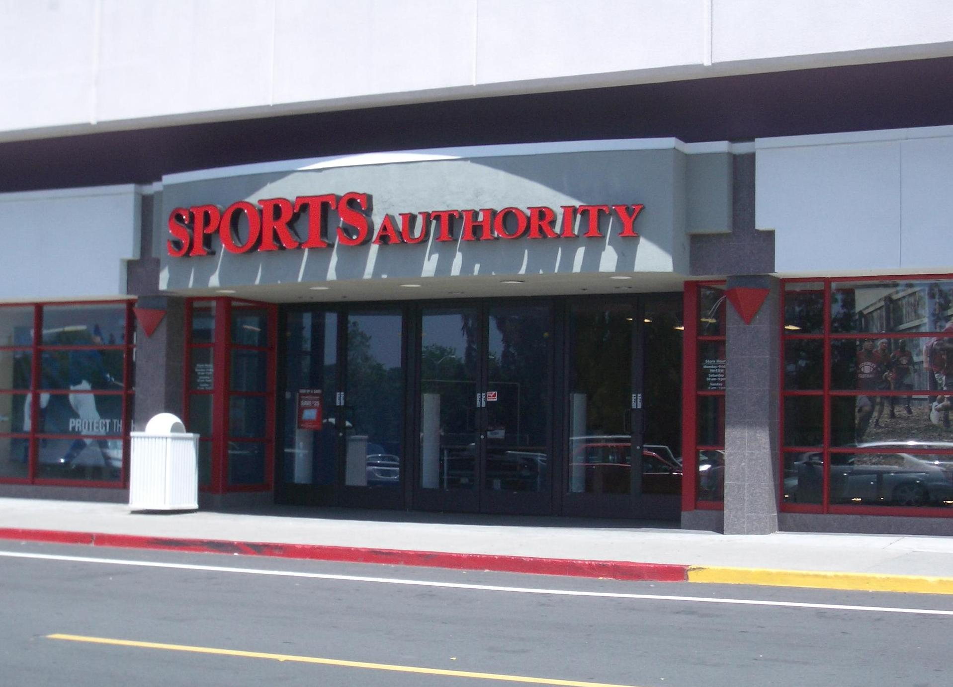 A Sports Authority in Sunvalley Shopping Center at Concord, CA, USA